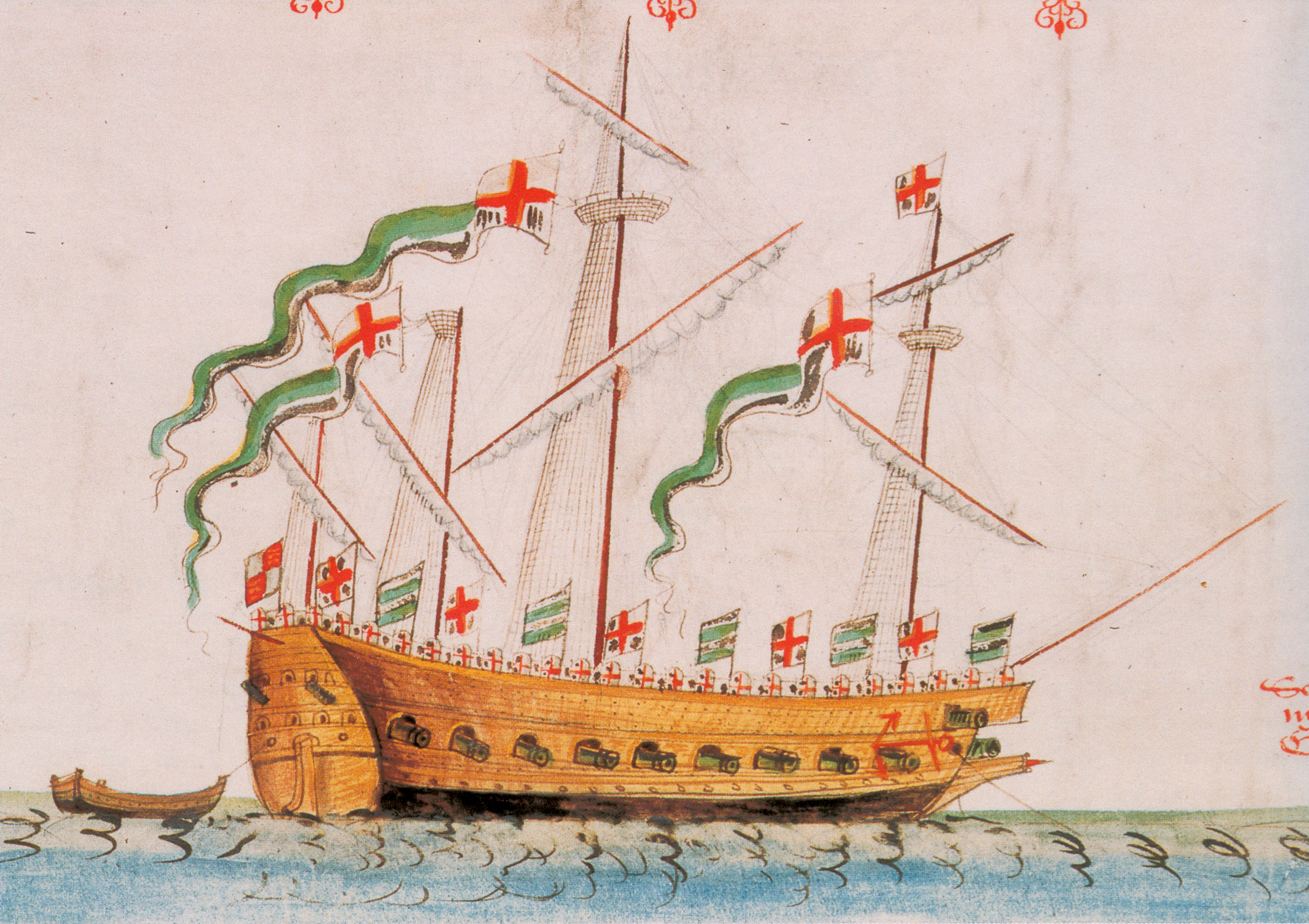 Illustration of the galleass Antelope. Notification about possible deletion Cathsuth (talk) 16:16, 9 February 2017 (UTC)